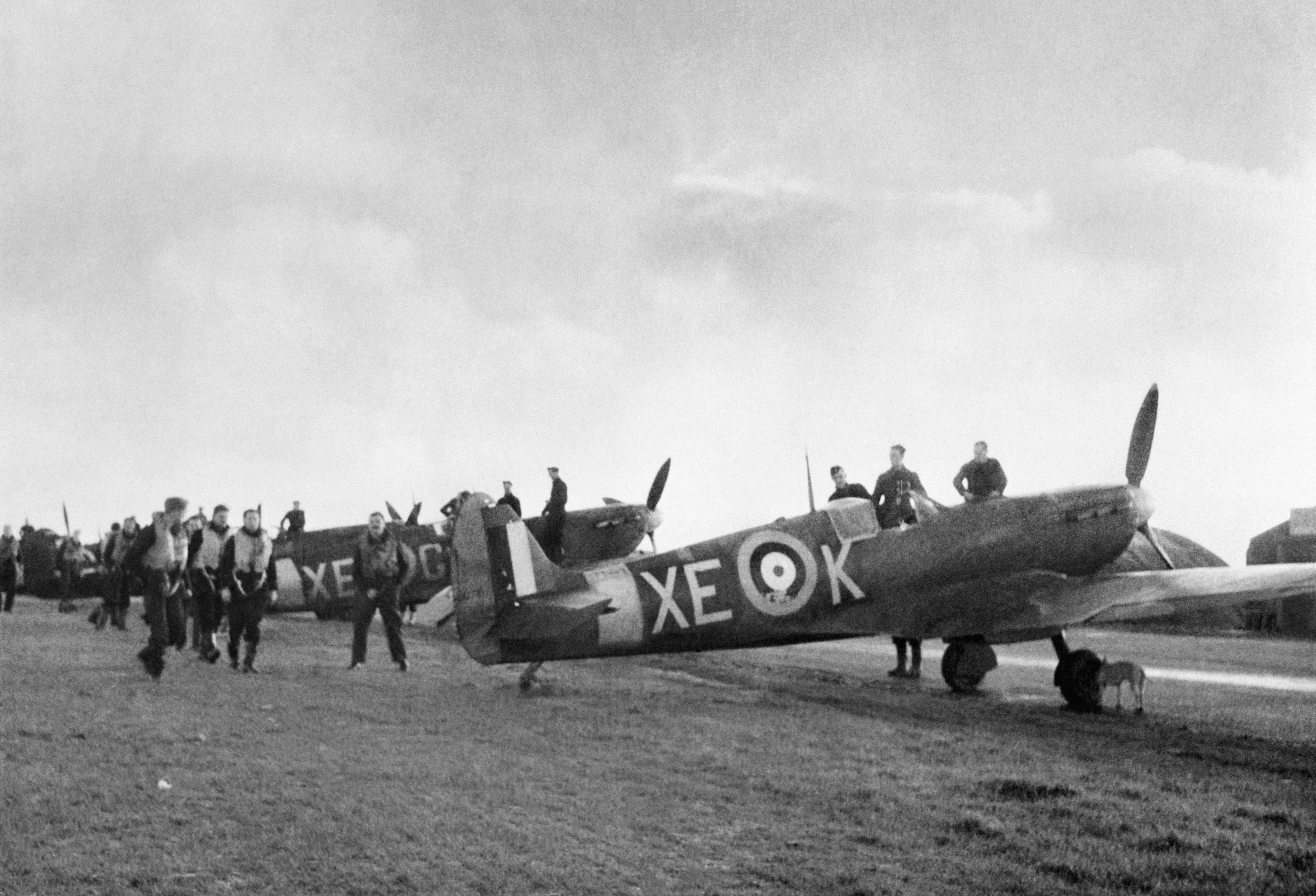 IWM caption : Supermarine Spitfire Mark IIAs (P7443 'XE-K' nearest) of No. 123 Squadron RAF being prepared for a sortie at Castletown, Caithness.